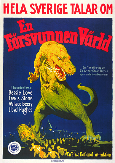 Swedish movie poster for the 1925 film The Lost World